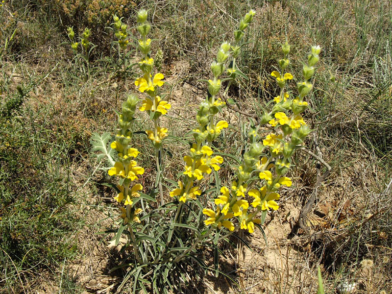 Phlomis lychnitis